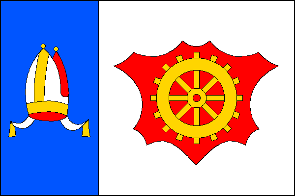 Municipal flag of Slavičín town, Zlín District, Czech Republic.